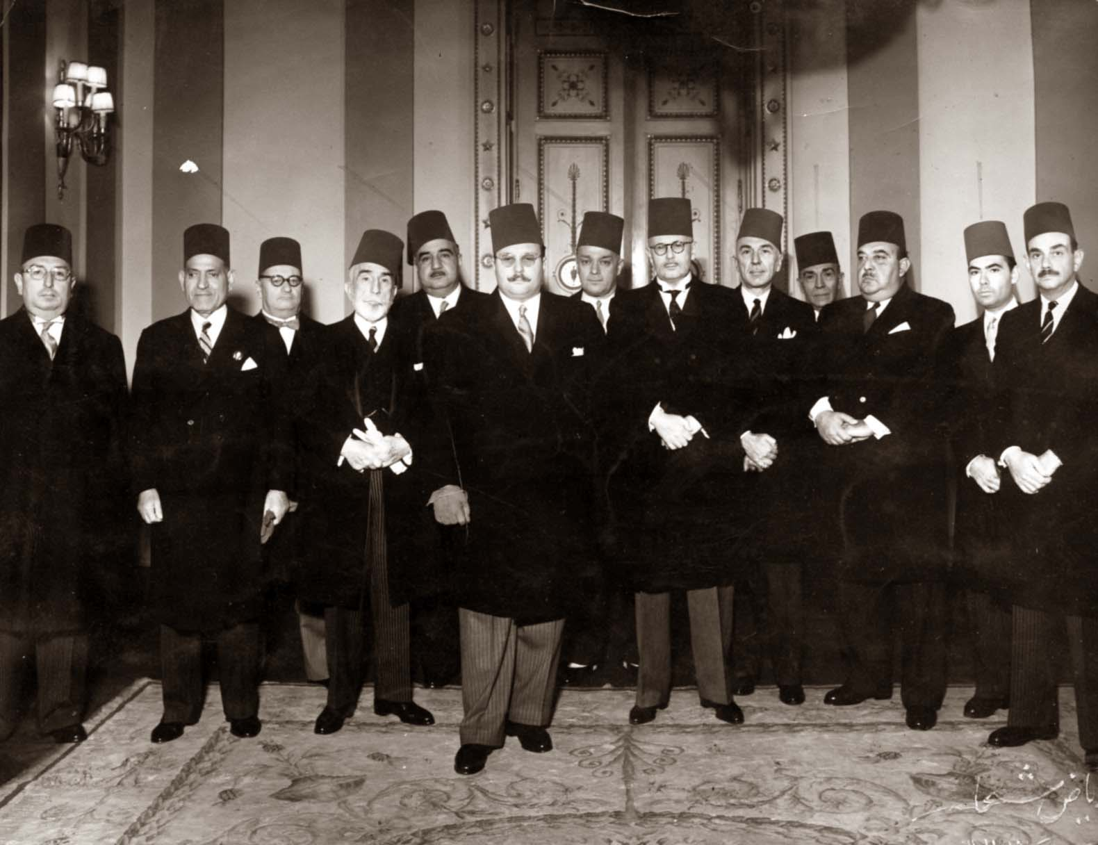 King Farouk I of Egypt with members of a newly formed government. On Farouk's right are Prince Muhammad Ali Tawfiq (with a white beard) and Mustafa el-Nahhas Pasha.